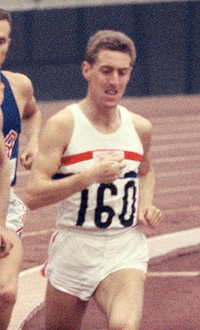 Athletes compete in the Men's 1,500 m Final at the National Stadium during the Tokyo Olympic on October 21, 1964 in Tokyo, Japan: John Whetton